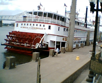 Photo of the Belle of Louisville.